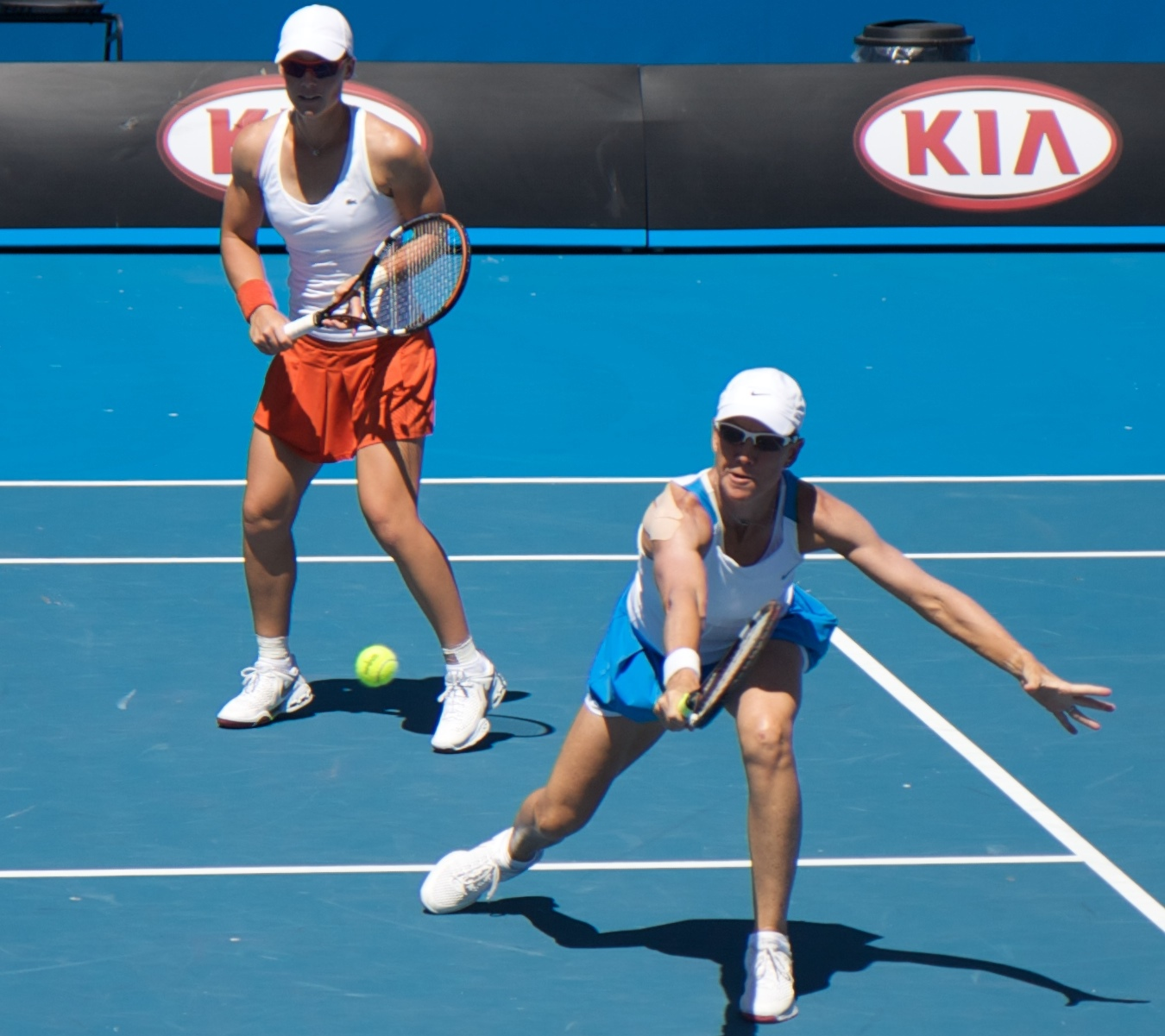 Samantha Stosur and Rennae Stubbs at the 2009 Australian Open, Melbourne, Australia.